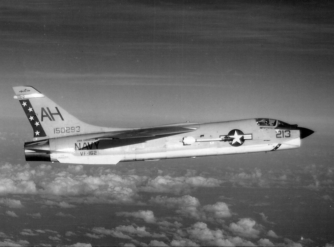 A U.S. Navy Vought F-8E Crusader (BuNo 150293) of Fighter Squadron VF-162 "Hunters" in flight. VF-162 was assigned to Carrier Air Wing 16 (CVW-16) aboard the aircraft carrier USS Oriskany (CVA-34) for a deployment to Vietnam from 16 June 1967 to 31 January 1968.